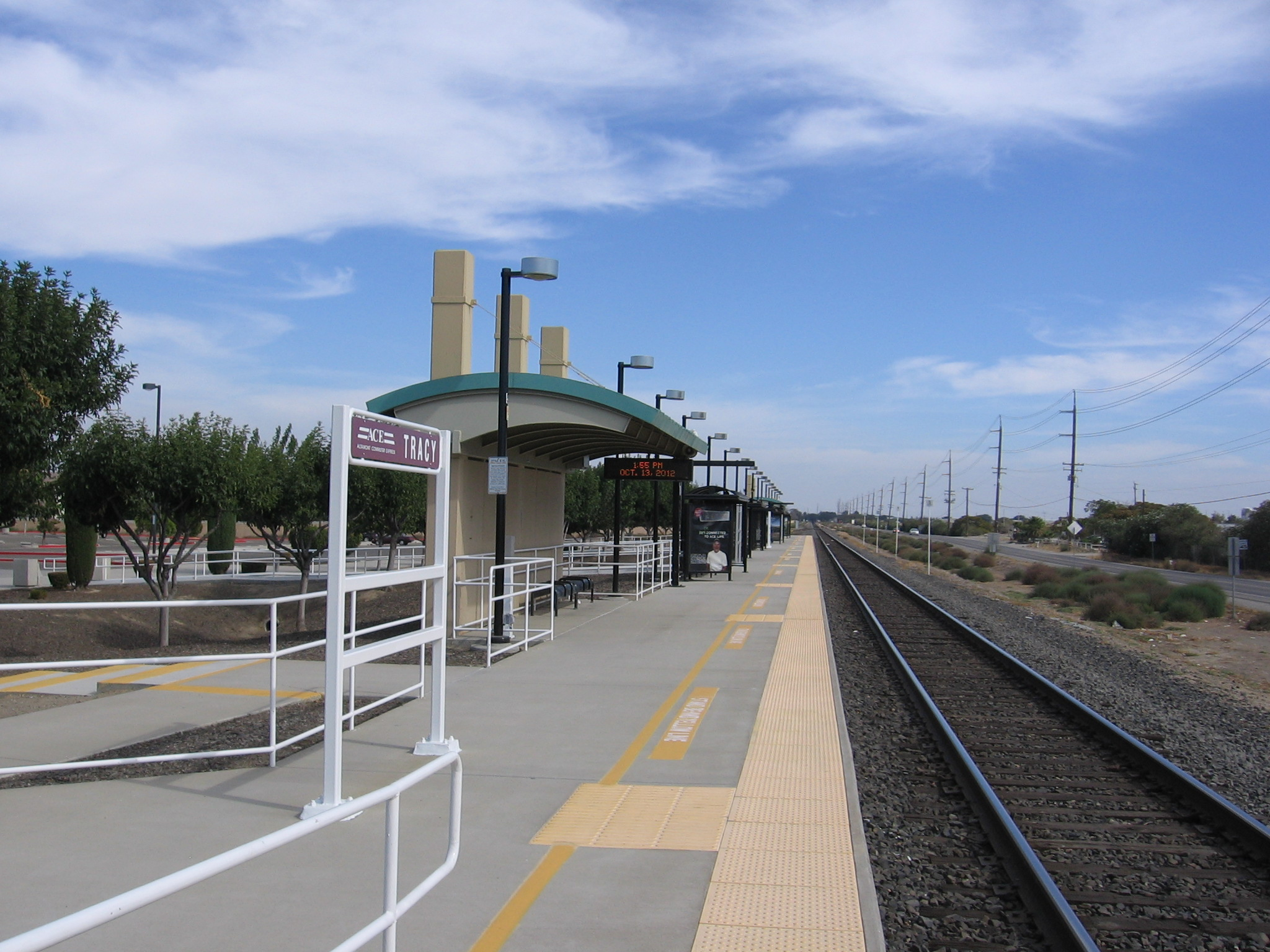 The Tracy (ACE station) in Tracy, California, USA.